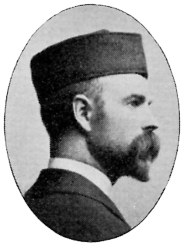 Image scanned from the book "Svenskt Porträttgalleri XX - Arkitekter, Bildhuggare, Målare m.fl. " ("Swedish Portrait Gallery XX - Architects, Sculptors, Painters, ") published 1901